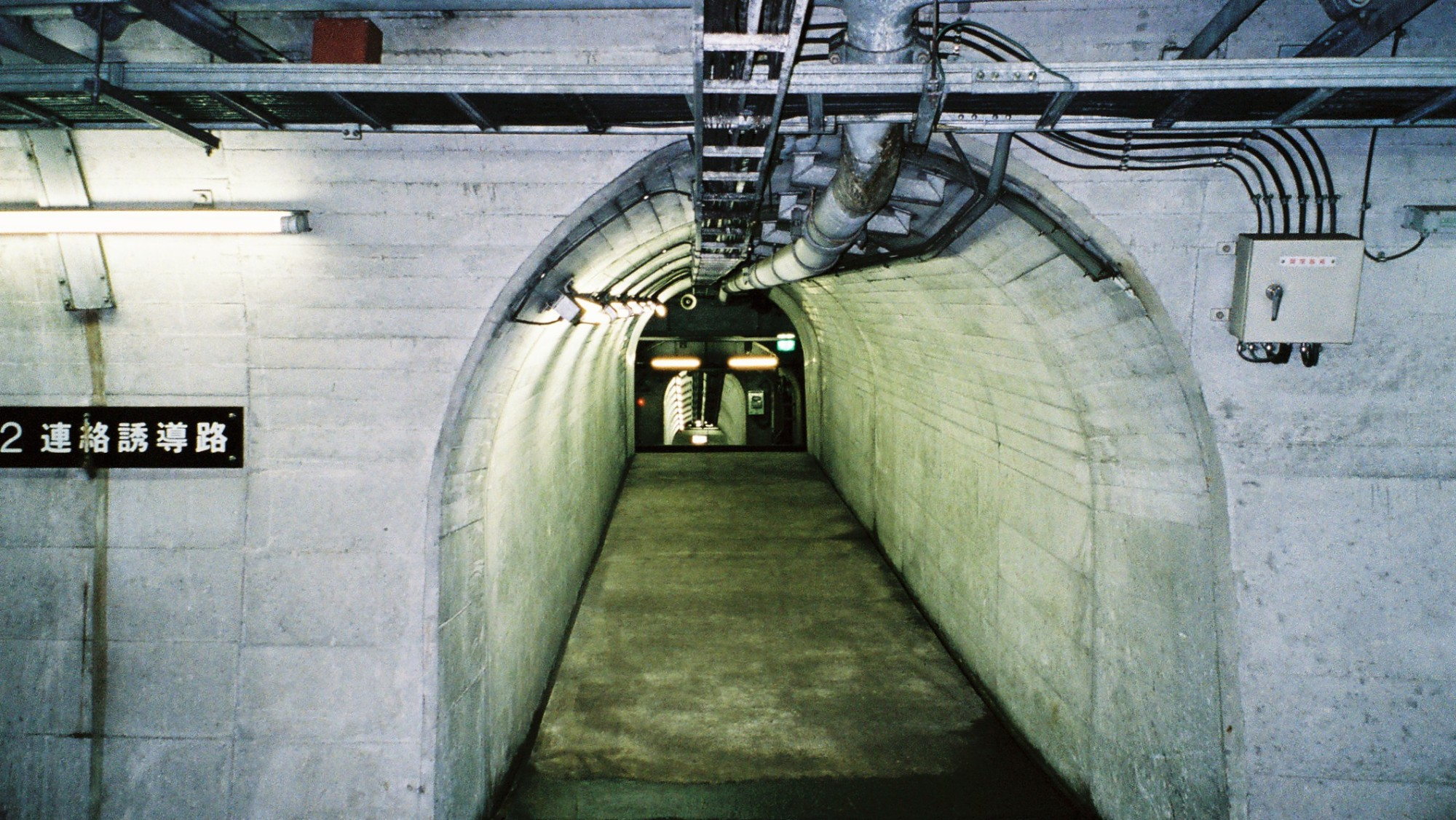 Tappi-kaitei Station.